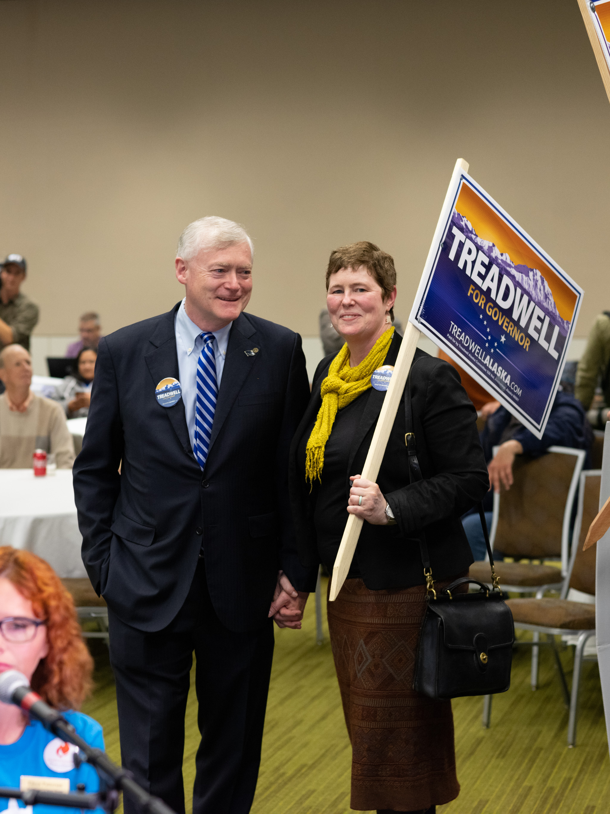 Photo taken at Election Central, Alaska General Election 2018. Election Central was co-hosted by ADN and the Alaska Landmine, and sponsored by GCI and Dittman Resarch. This photo is provided under a Creative Commons Attribution license. Please provide the following credit: "Photo used under Creative Commons license courtesy Corinne Graves, The Alaska Landmine ."